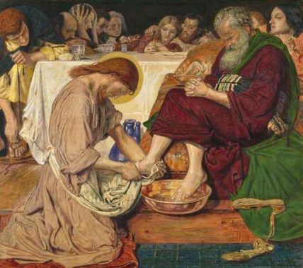 Watercolour: "Jesus washing Peter's feet"